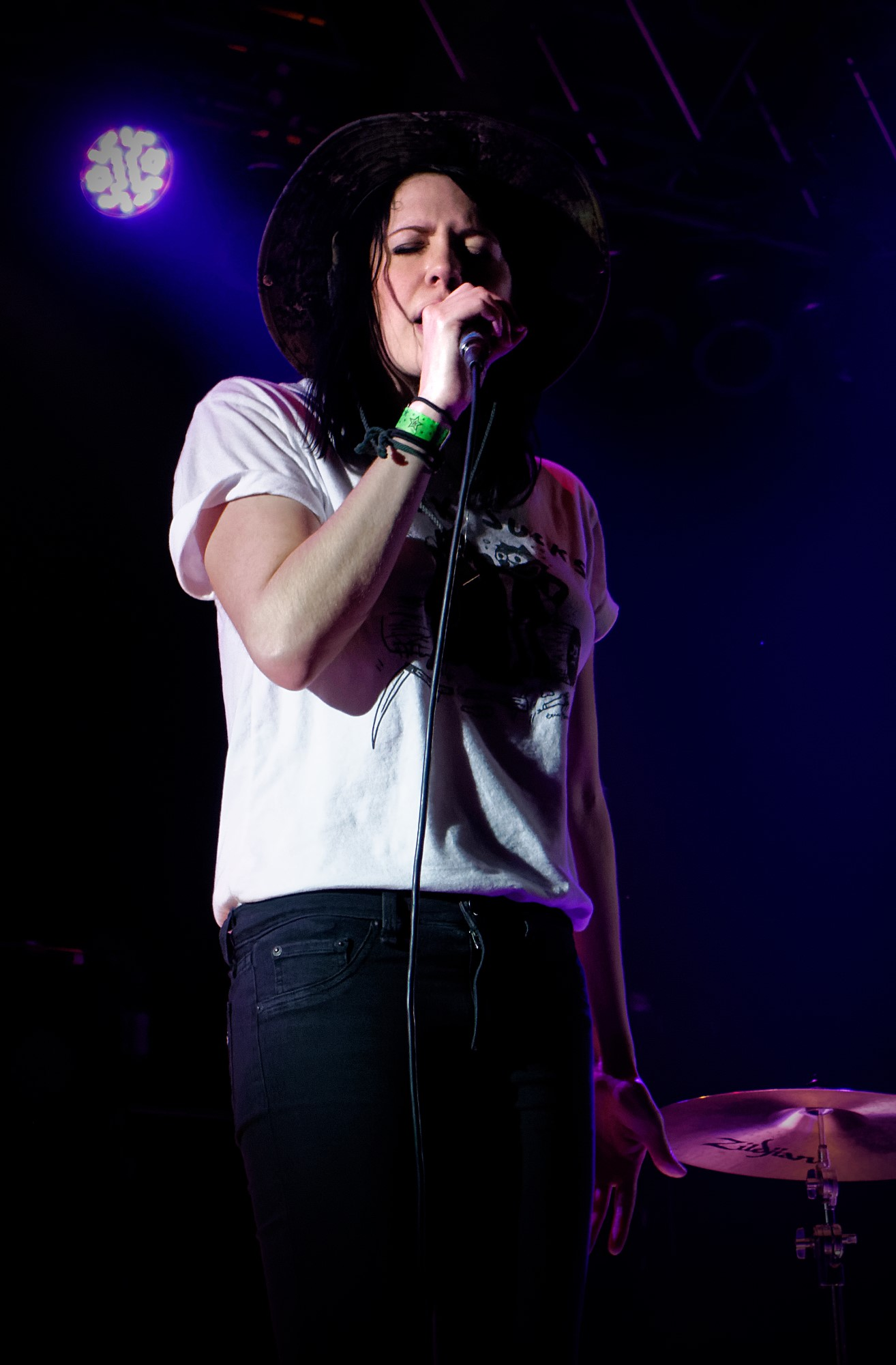 Cropped photograph of K.Flay at House Of Blues Anaheim in December 2015